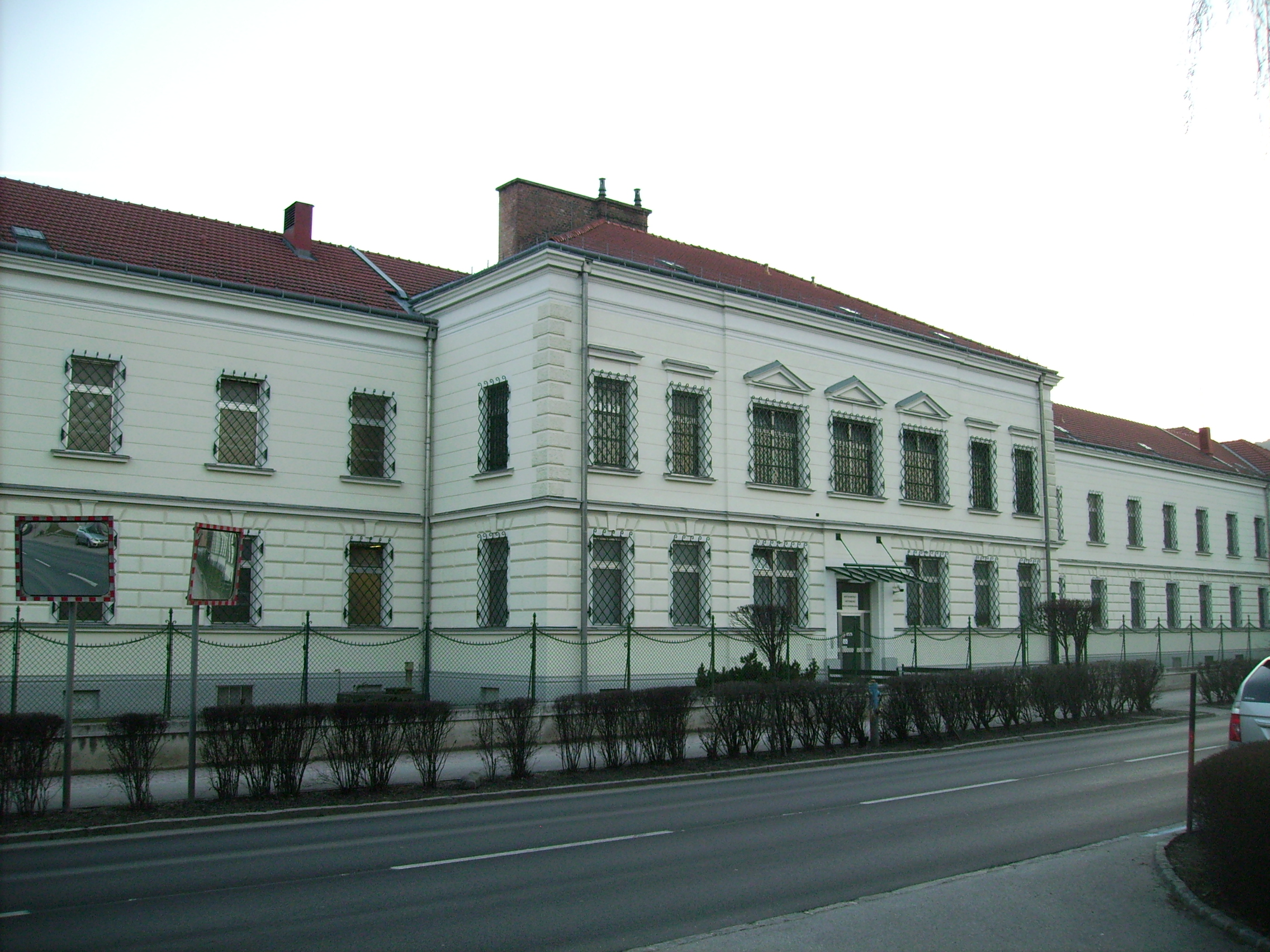 The front of the penitentiary in Hirtenberg Lower Austria